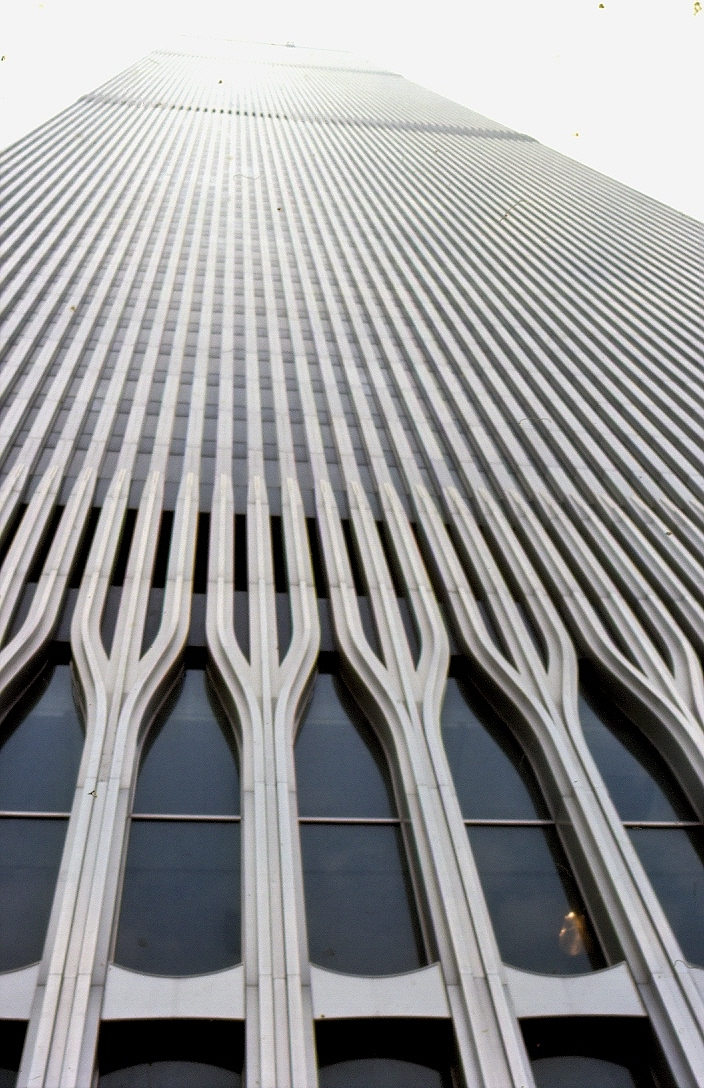 Facade detail of the World Trade Center Building, New York City in July 1974